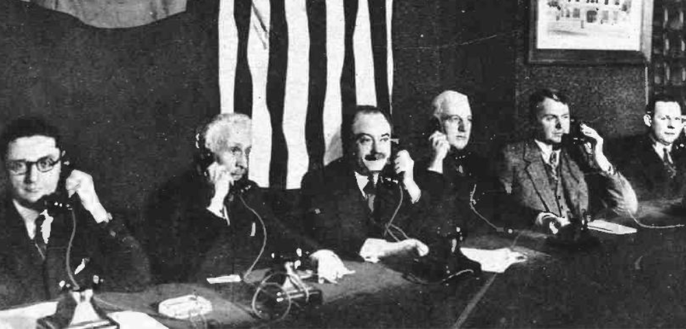 First Bucharest-to-New York City phone call, from the Romanian Telephone Palace. From left: Victor Vâlcovici, Romanian Minister of Public Works; Dimitrie I. Ghika, Romanian Minister of Foreign Affairs; Grigore Filipescu, chairman of the Romanian Telephone Company (SART); and three representatives of ITT, SART's parent company: C. Wilson; L. Sussdorf; Geoffrey Ogilvie.